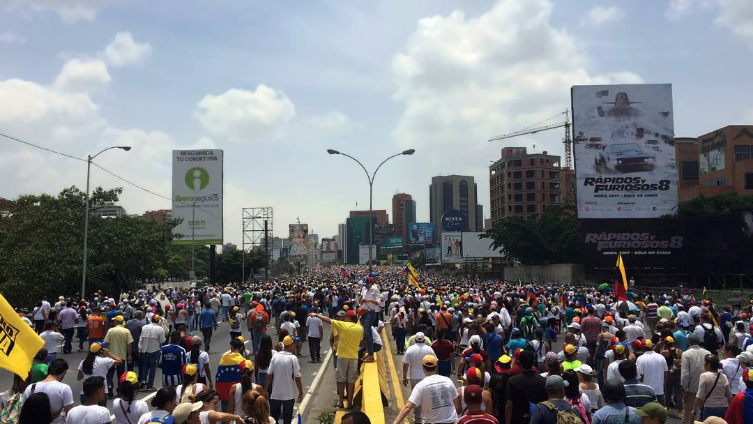 The group of opposition protesters who were going to the ombudsman's office indicated that they would deliver a document to that institution demanding immediate elections and the release of political prisoners. Image is facing west on Francisco Fajardo Highway.